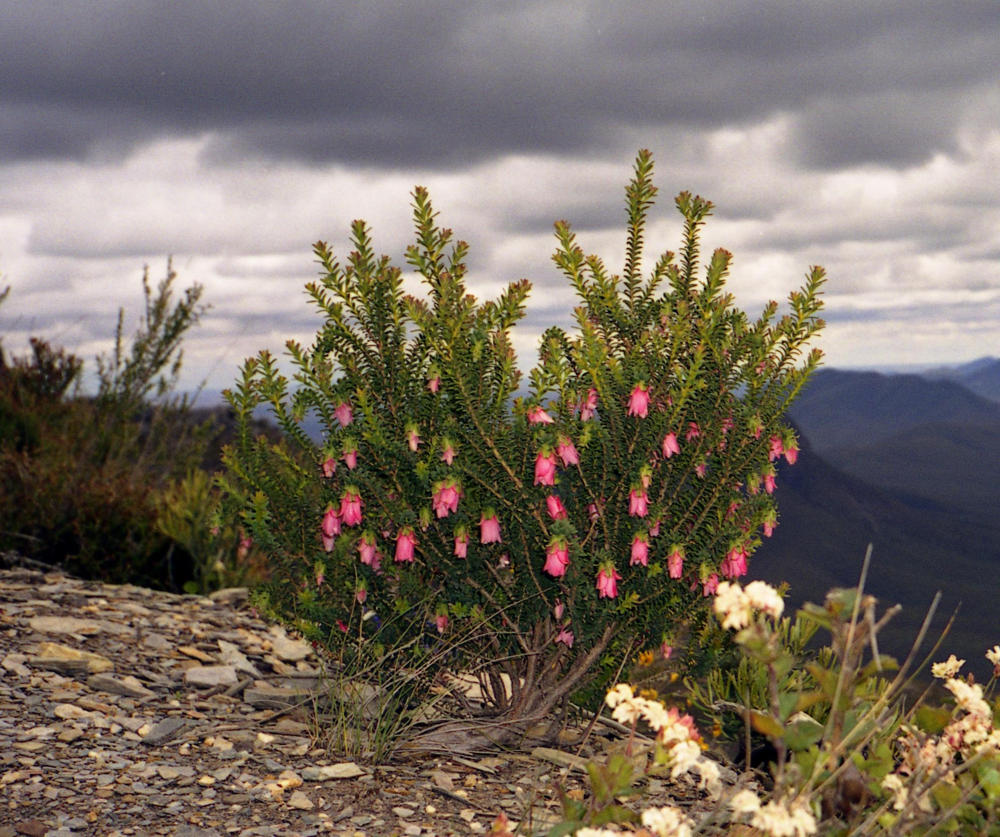 Darwinia plant - Stirling Ranges Western Australia